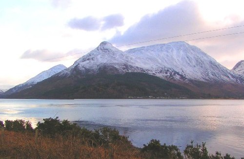 Office view of the Pap of Glencoe